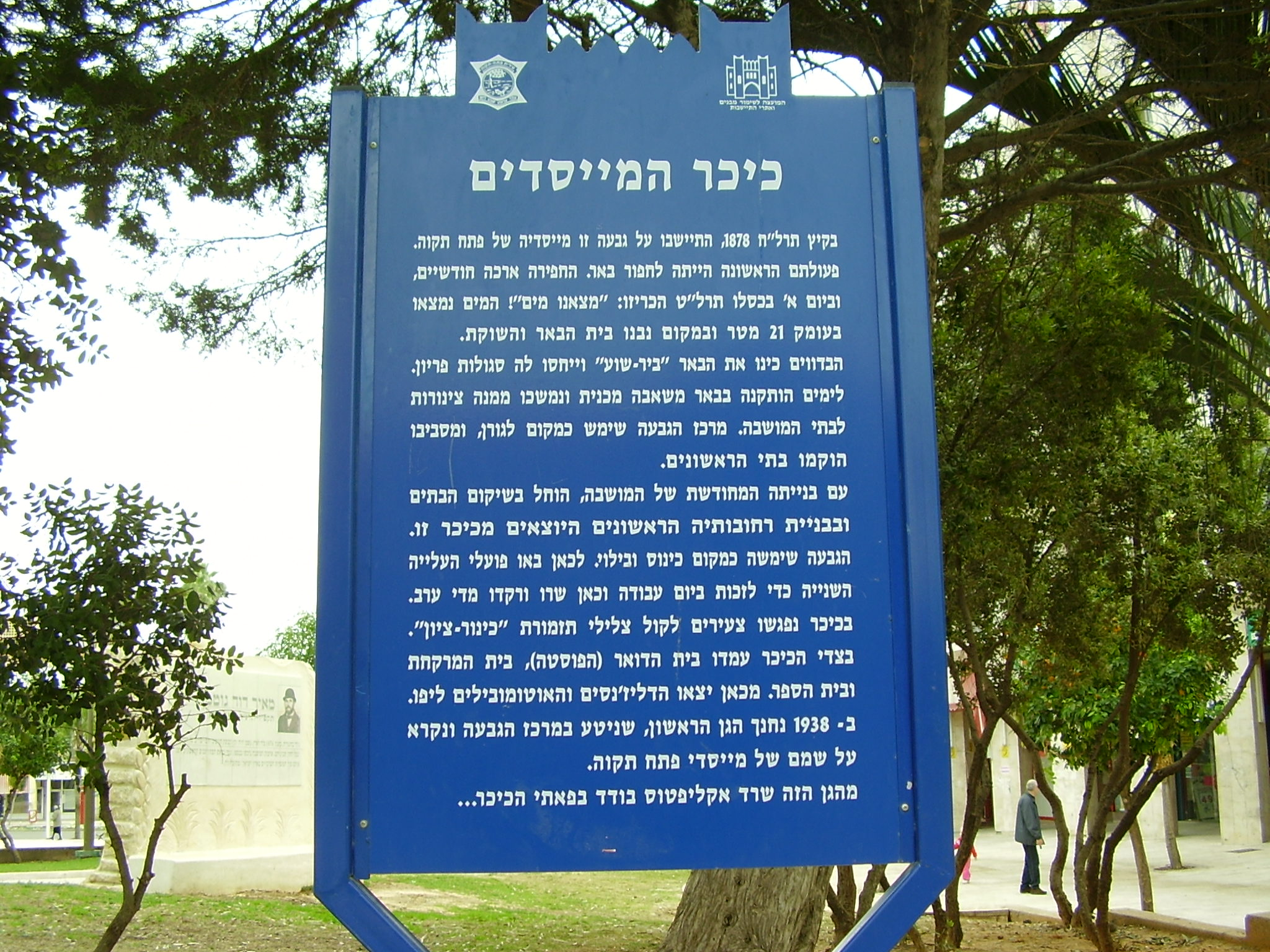 explanation plate un the founders square in petakh-tikva